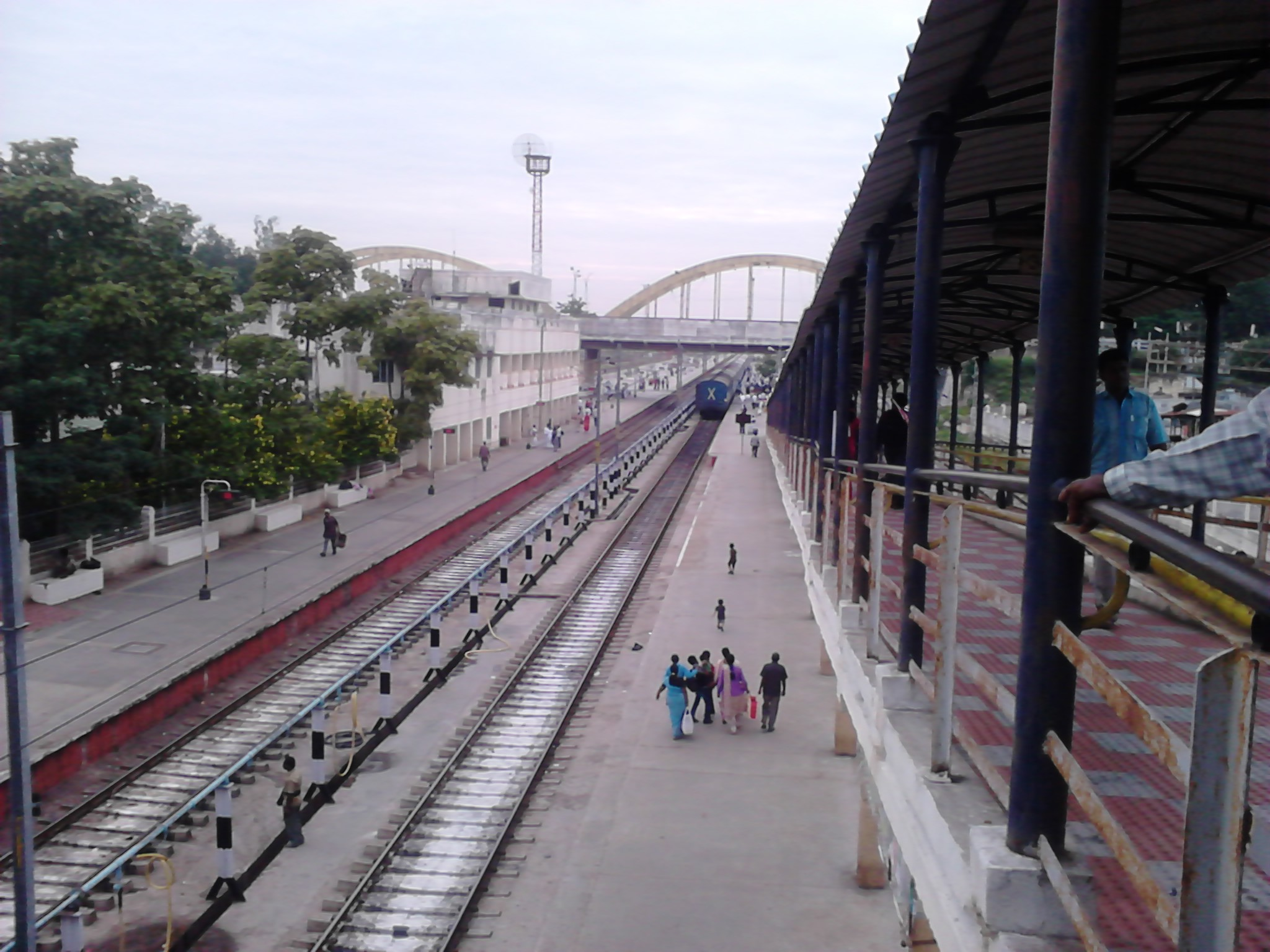 Katpadi Railway junction , Vellore District, TamilNadu India